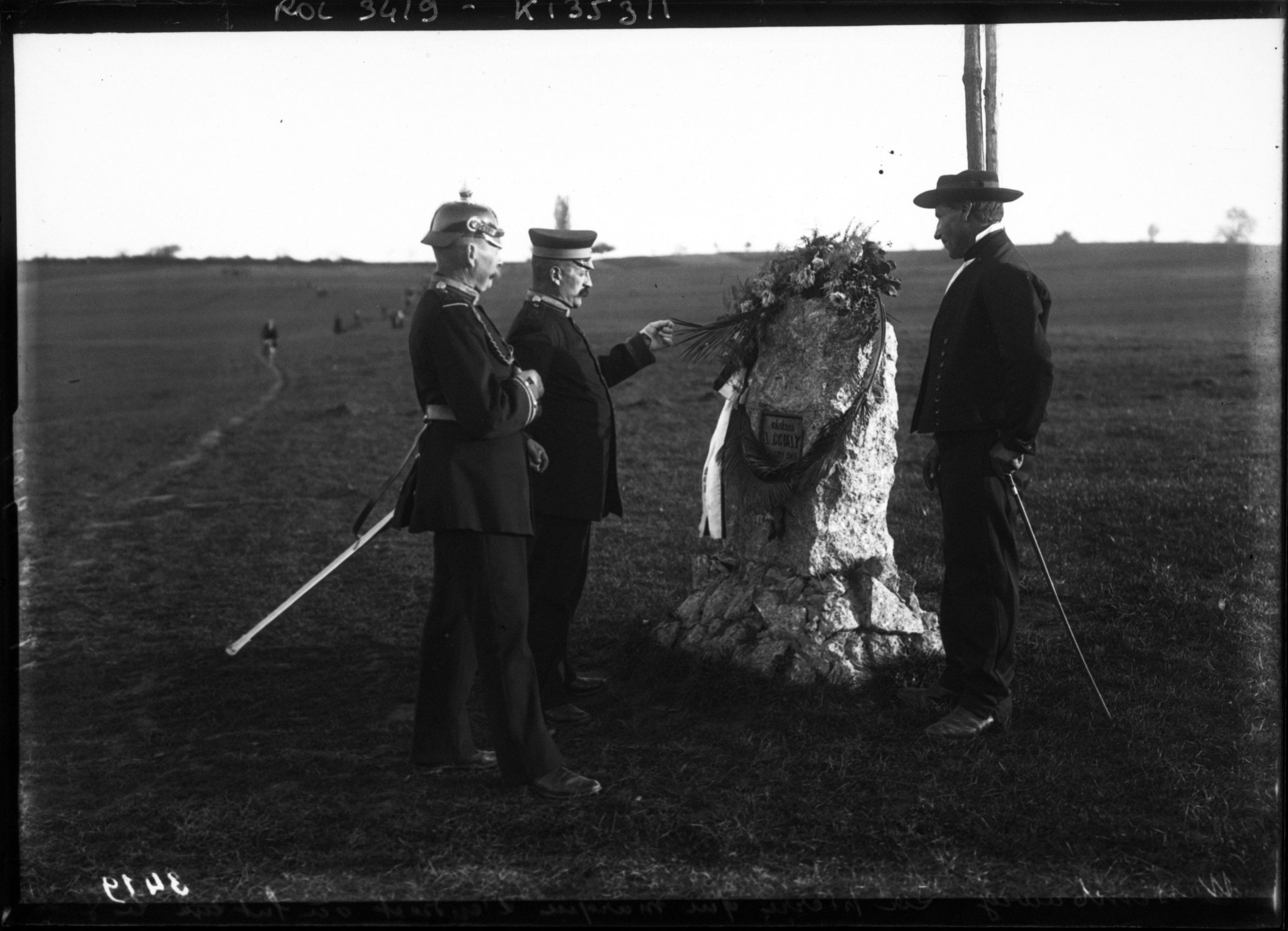 Stone marking the spot of general Abel Douay's death on the battlefield of Wissembourg, during the Franco-Prussian War of 1870.